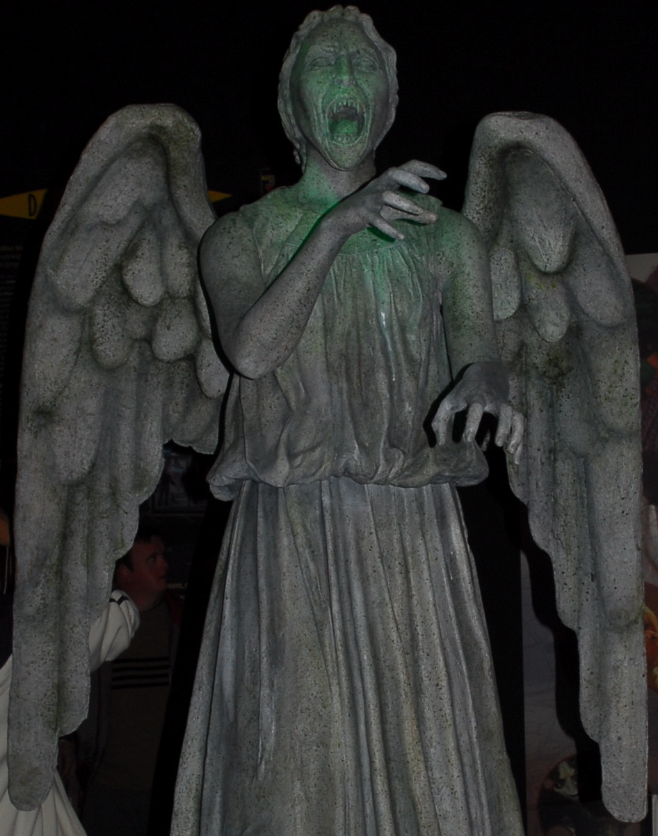 Don't blink! Doctor Who Experience